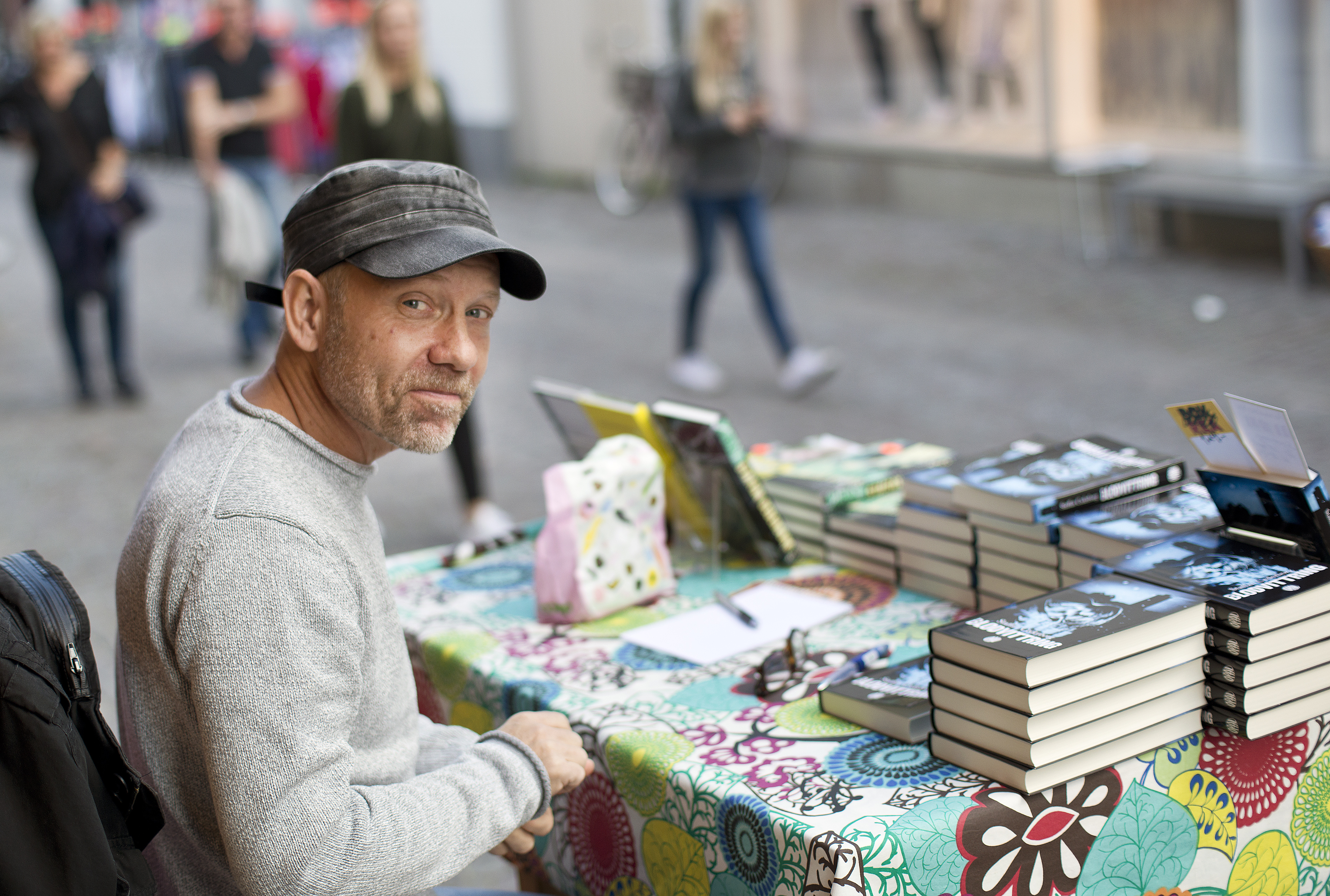 Cederborg is a Swedish author.